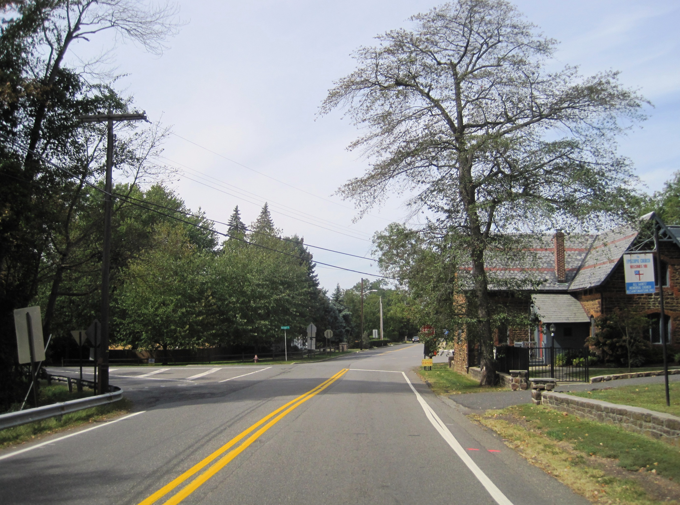 Photo showing Stone Church, New Jersey, an unincorporated community within Middletown Township. Photo taken along westbound Navesink Avenue (County Route 8B) approaching its intersection with Leonardville Road / Locust Avenue (CR 8A) and Oakdale Run.